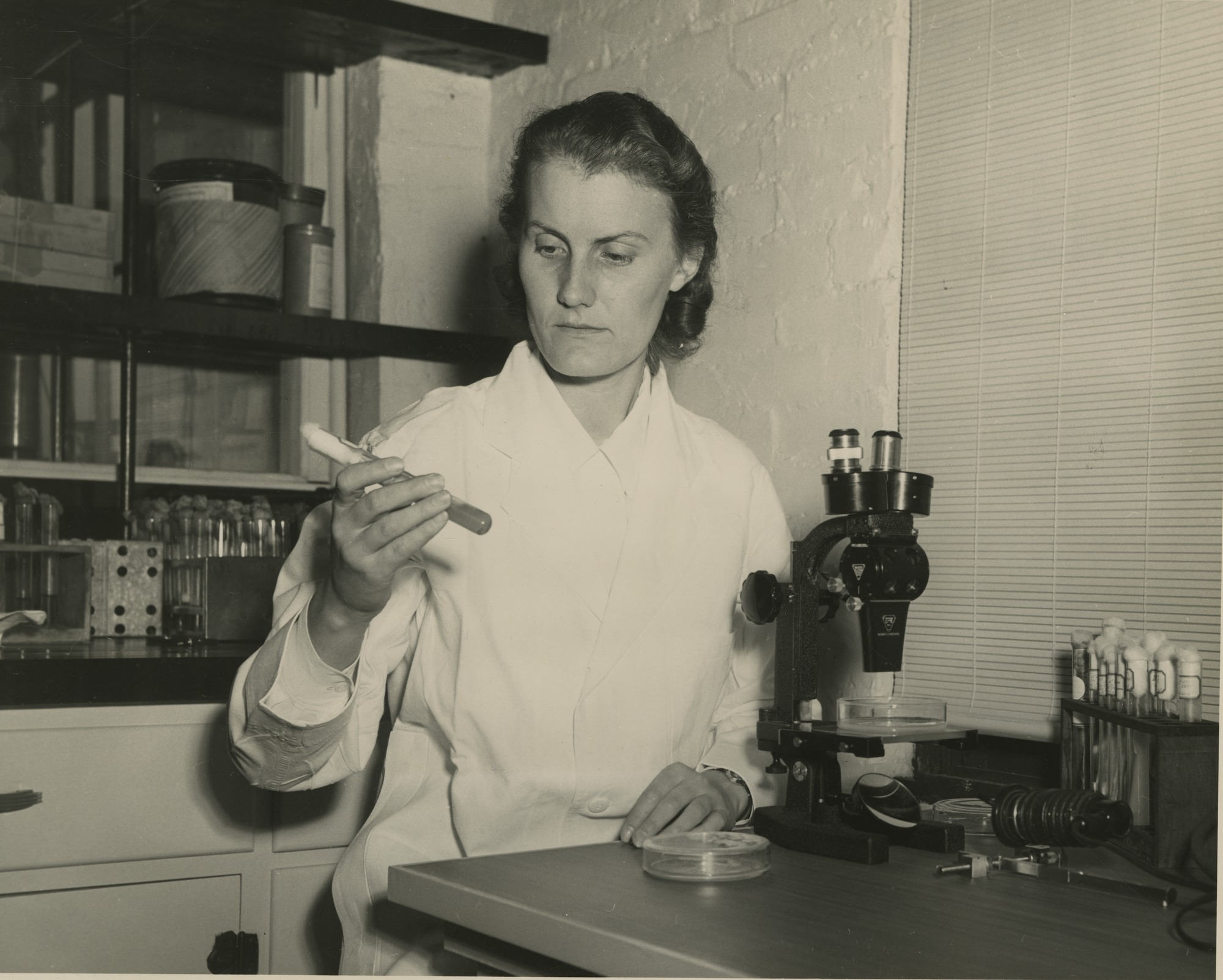 After earning Ph.D. in botany from University of North Carolina, Alma Whiffen Barksdale (1916-1981) worked as a mycologist at The Upjohn Company, Kalamazoo, Michigan, where she discovered cycloheximide, an anti-fungal agent widely used on golf courses and cherry orchards. She later worked as a senior botanist at the New York Botanical Garden, 1952-1975